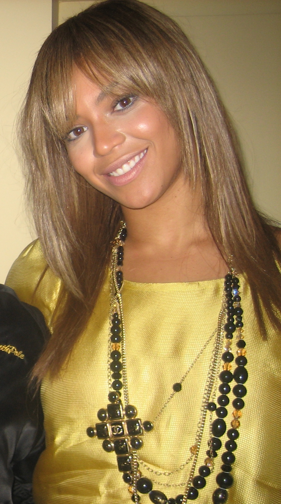 Beyoncé in 2008.